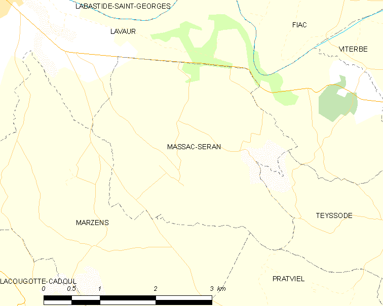 Map of French municipality Massac-Séran